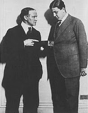 Magician Harry Houdini with Joaquín Argamasilla.